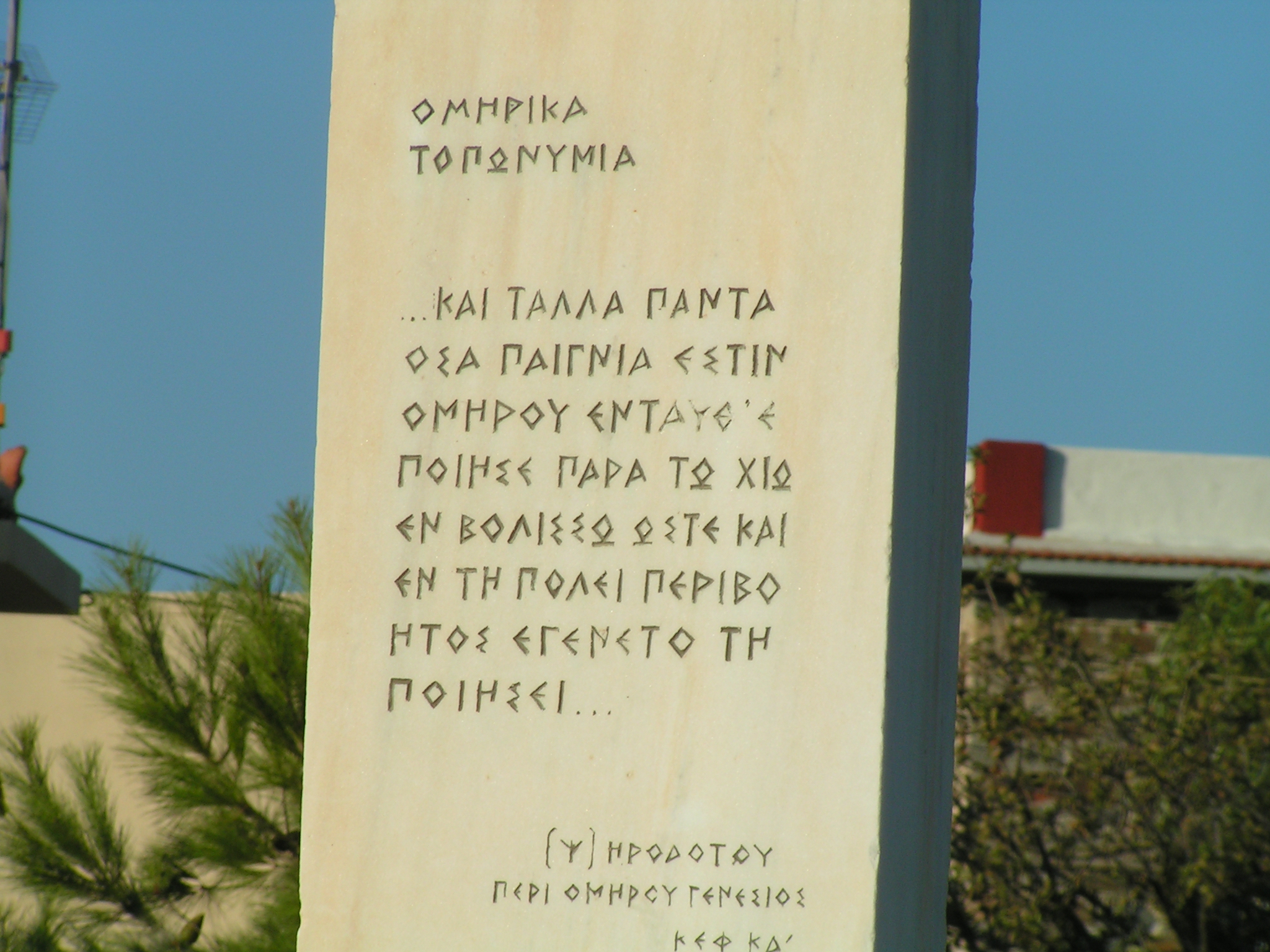 Marble plate at the entrance of Volisssos with an excerpt from Herodotus script in ancient Greek on Homer's life